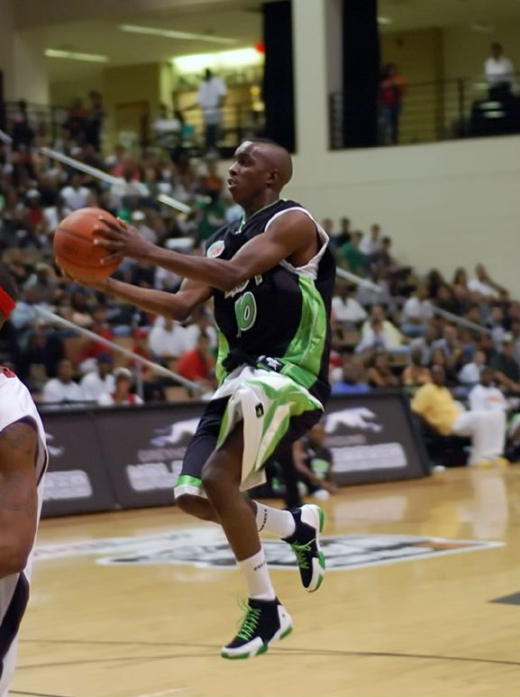 Streetballer Aaron Owens going up for a shot.